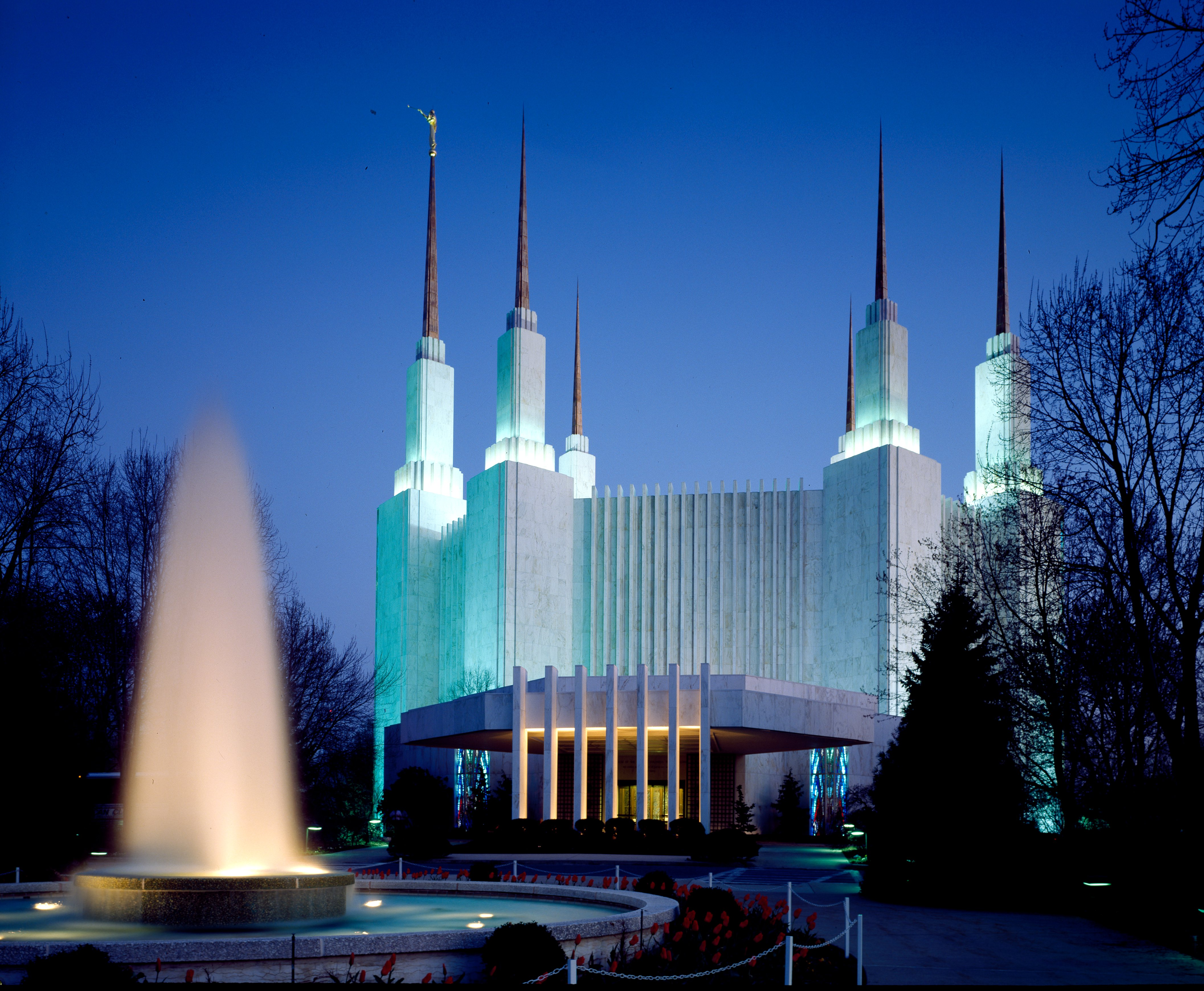 Washington D.C. Temple of The Church of Jesus Christ of Latter-day Saints, located along the Capital Beltway in Kensington, Maryland